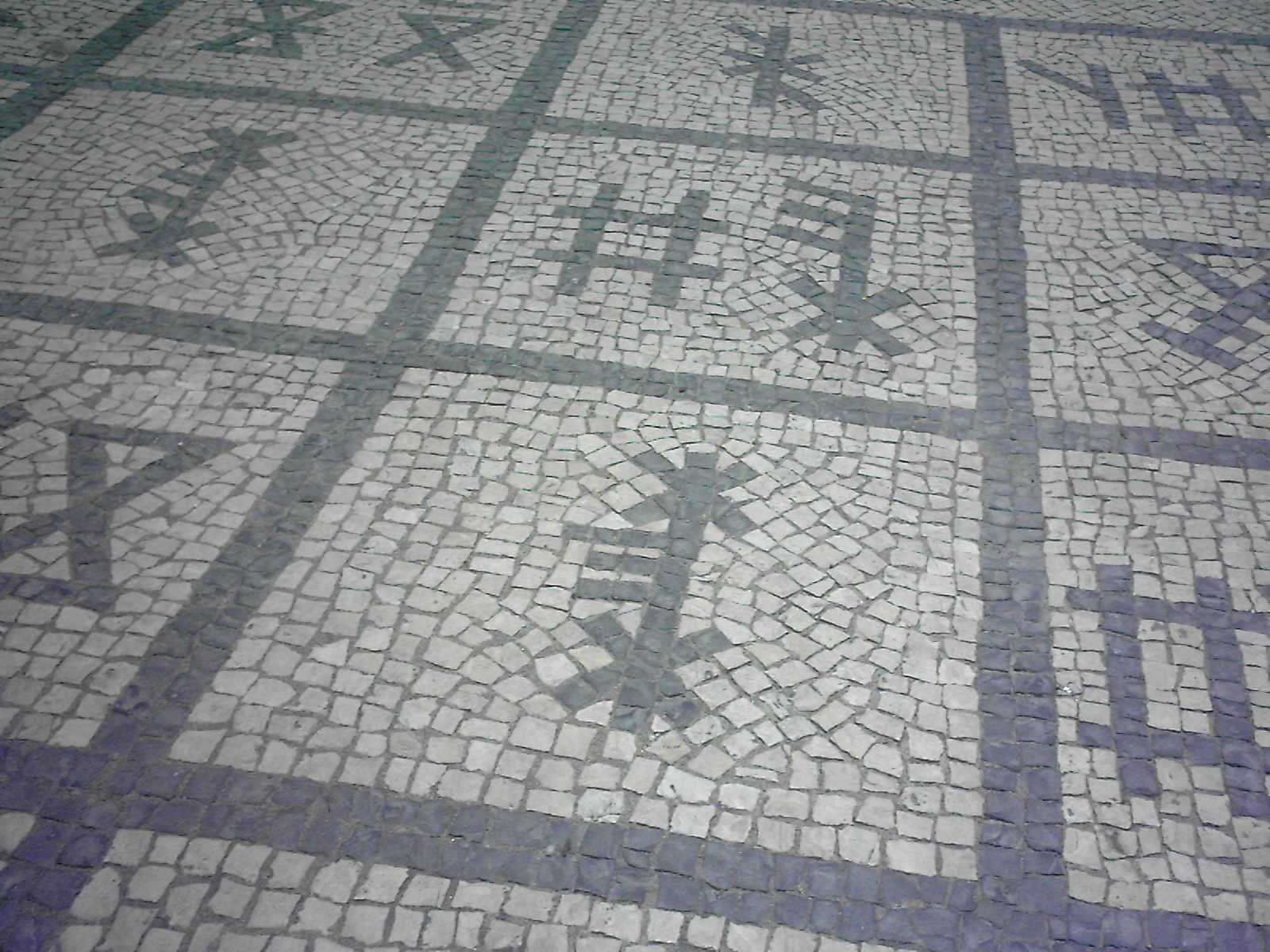 by user:PedroPVZ